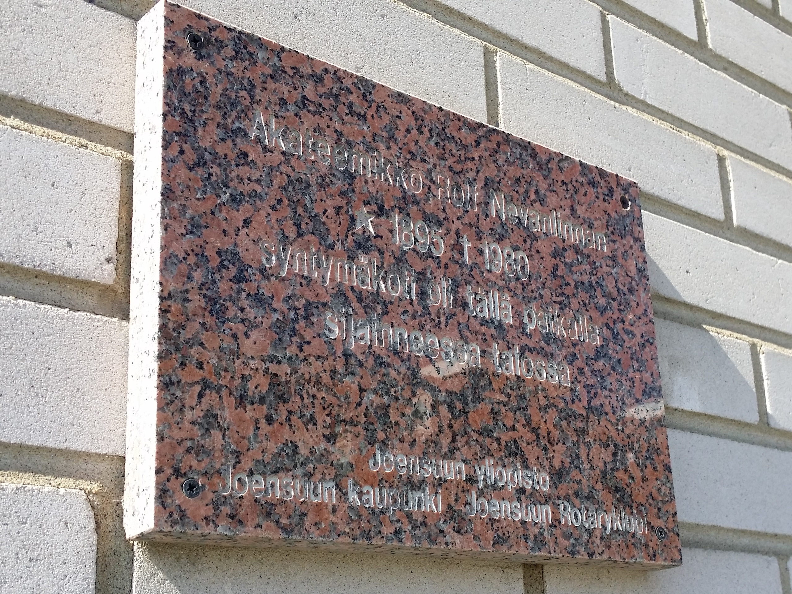 Memorial plaque of Rolf Nevanlinna's birth home, Koulukatu 25, Joensuu, Finland. Text: Academician Rolf Nevanlinna's (1895-1980) birth home was in a house which was located here.